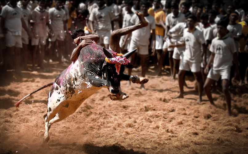 A bull tamed by a tamil youth. jallikattu performed in Alanganallur, Madurai